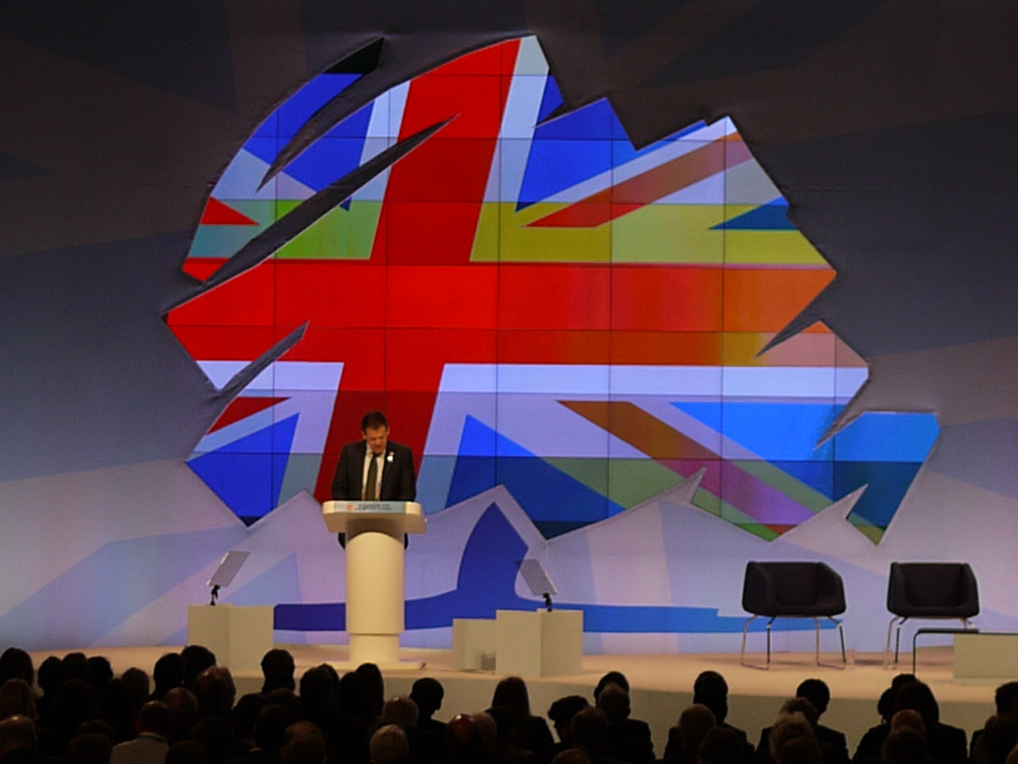 Conservative Party Conference 2011